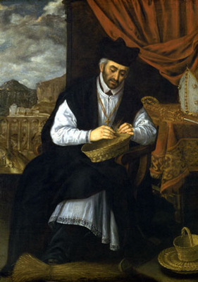 Painting of St. Julian of Cuenca by Eugenio Cajes